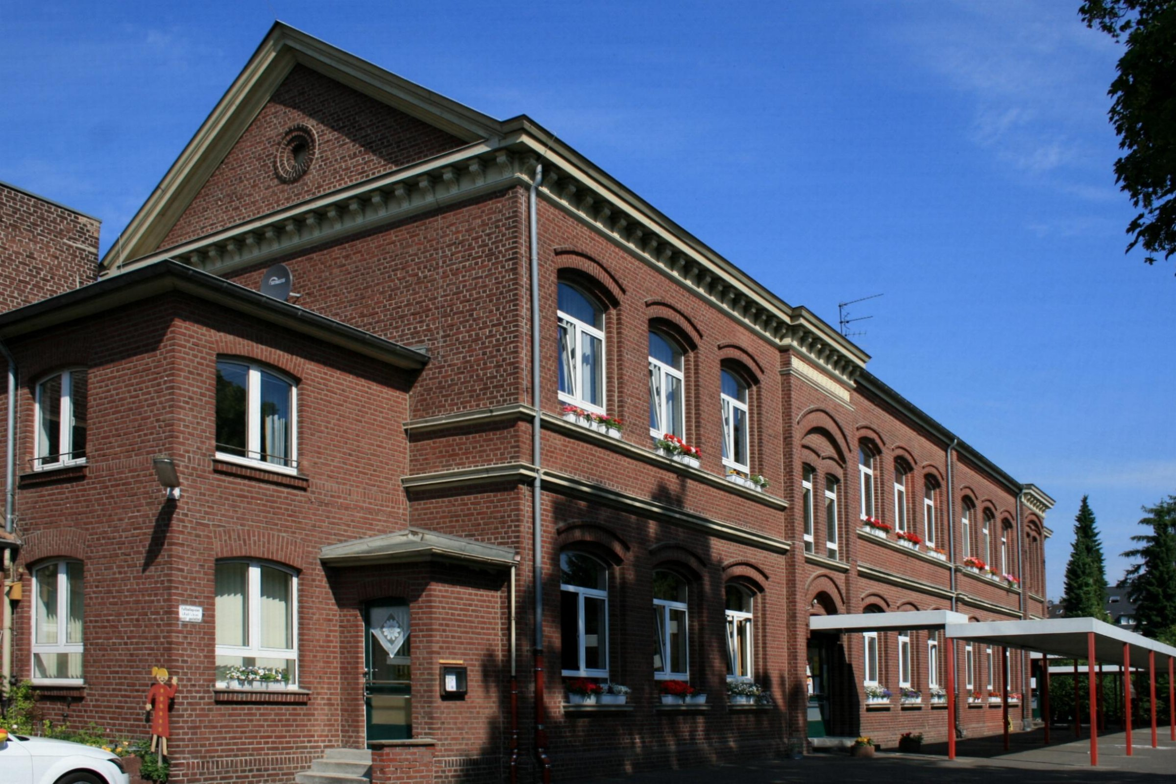 Cultural heritage monument No. N 006 in Mönchengladbach